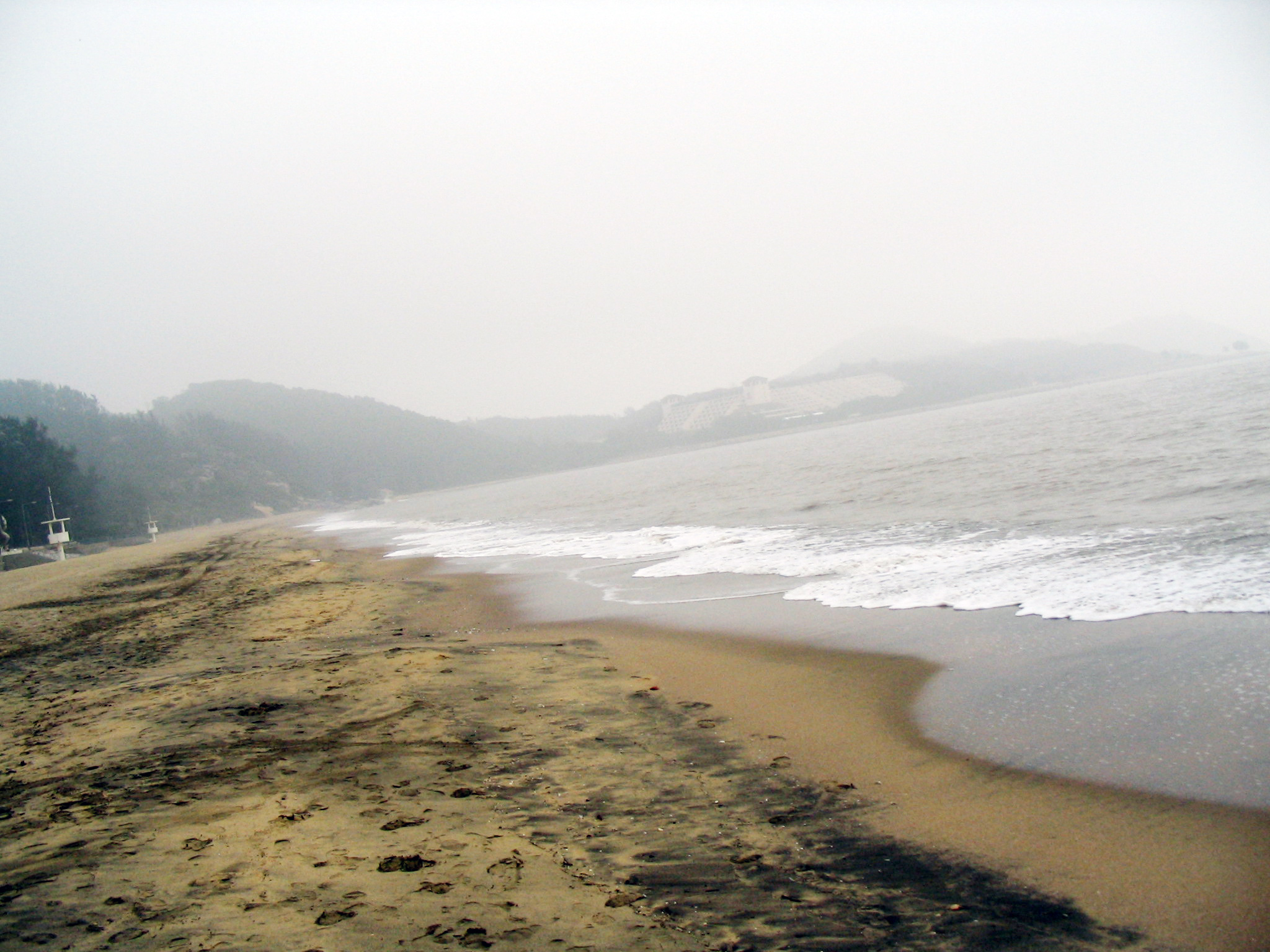 Photo of Hac Sa Beach